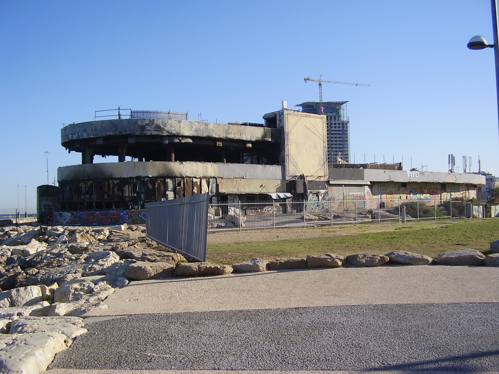 ruins of tel aviv dolphinarium